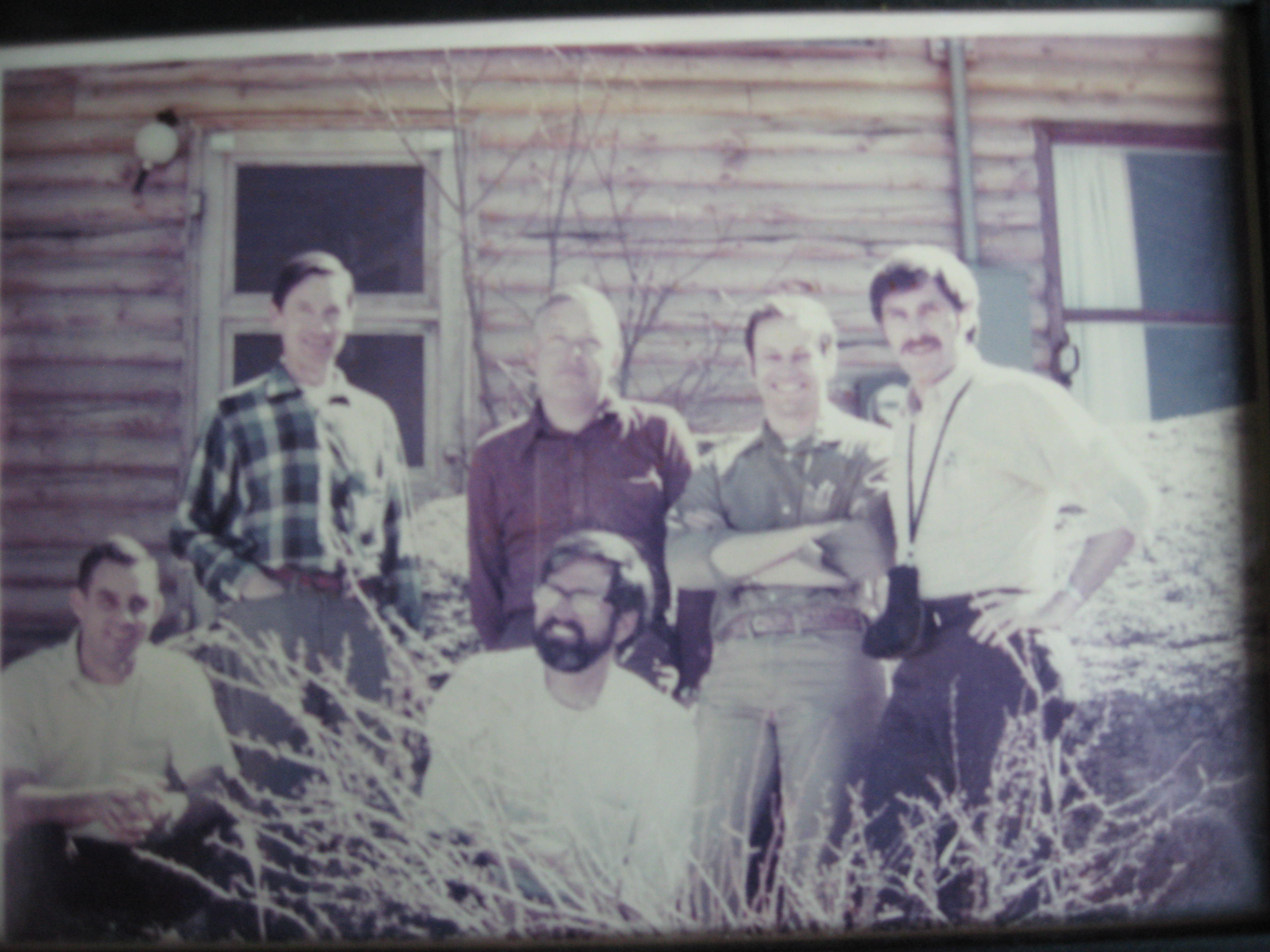 Colorado State University NSF-NREL Executive Directorate Grassland Biome Program March 21-22 1972--Left to Right top row: Norm French, Jim Gibson, George Van Dyne, Melvin Dyer; Front Row: Freeman Smith, George Innis